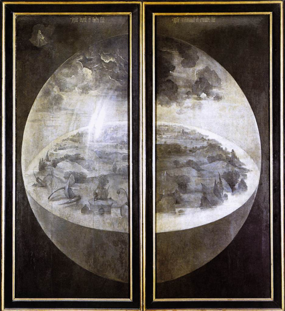 Exterior (shutters) of The Garden of Earthly Delights